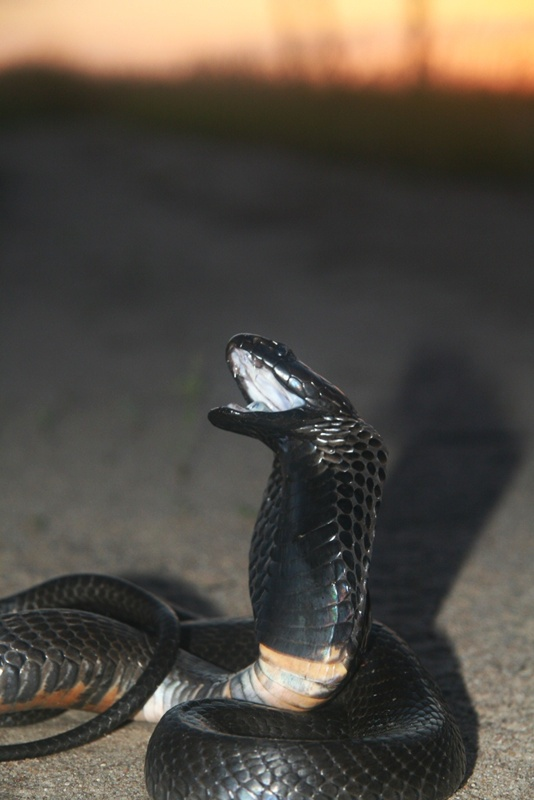 A black-necked spitting cobra (Naja nigricollis) in a defensive posture.